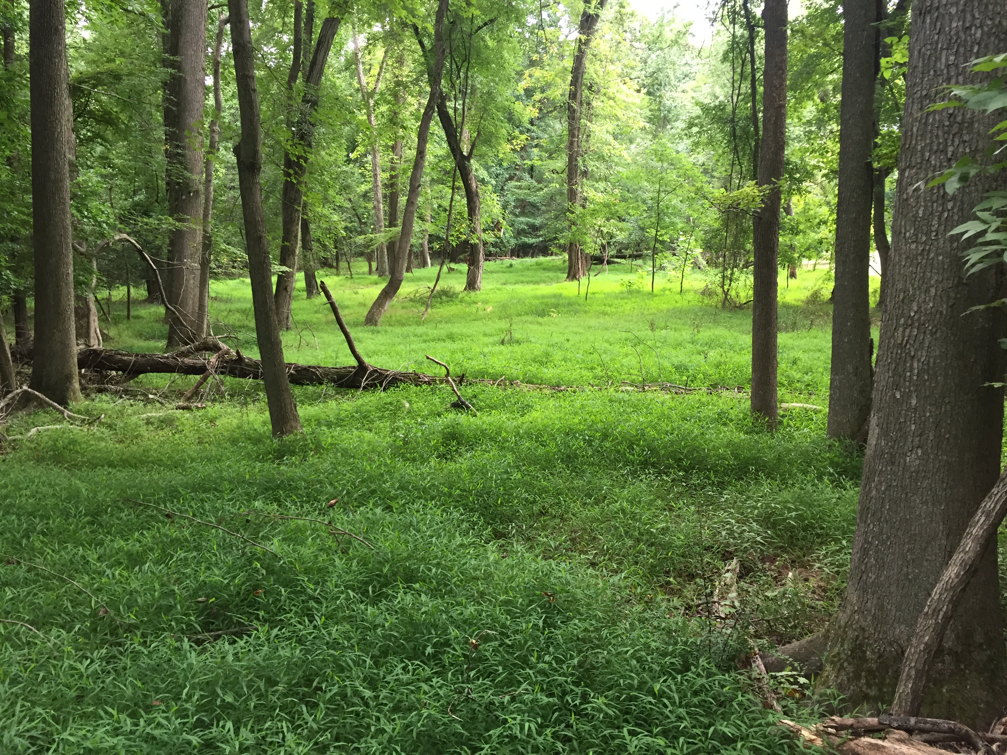 Japanese Stiltgrass (Microstegium vimineum) infestation spreading for acres in partially closed-canopy, mesic forest. Greenbelt, Maryland, USA Photo taken August 7, 2015.